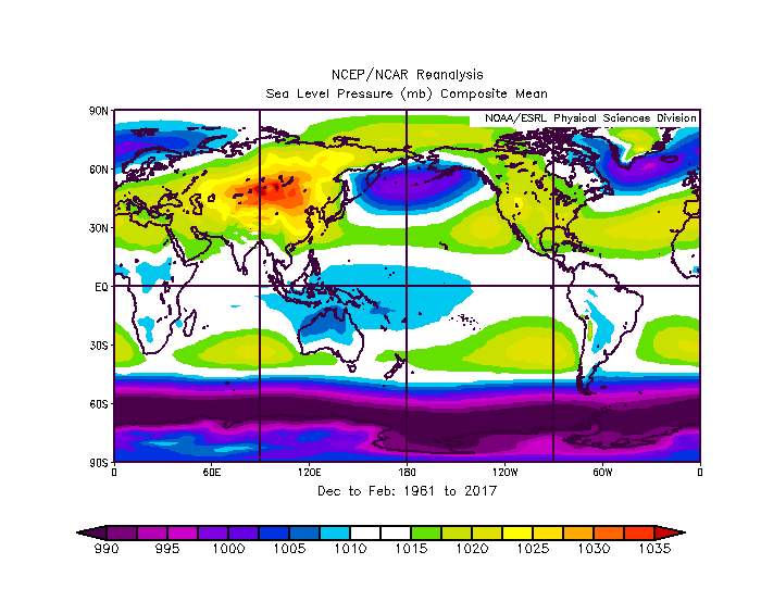 Mean sea level pressure over the winter months 1961-2017 shows the area of high atmospheric pressure over the Southern part of Siberia. Data from NCEP/NCAR Reanalysis [1]